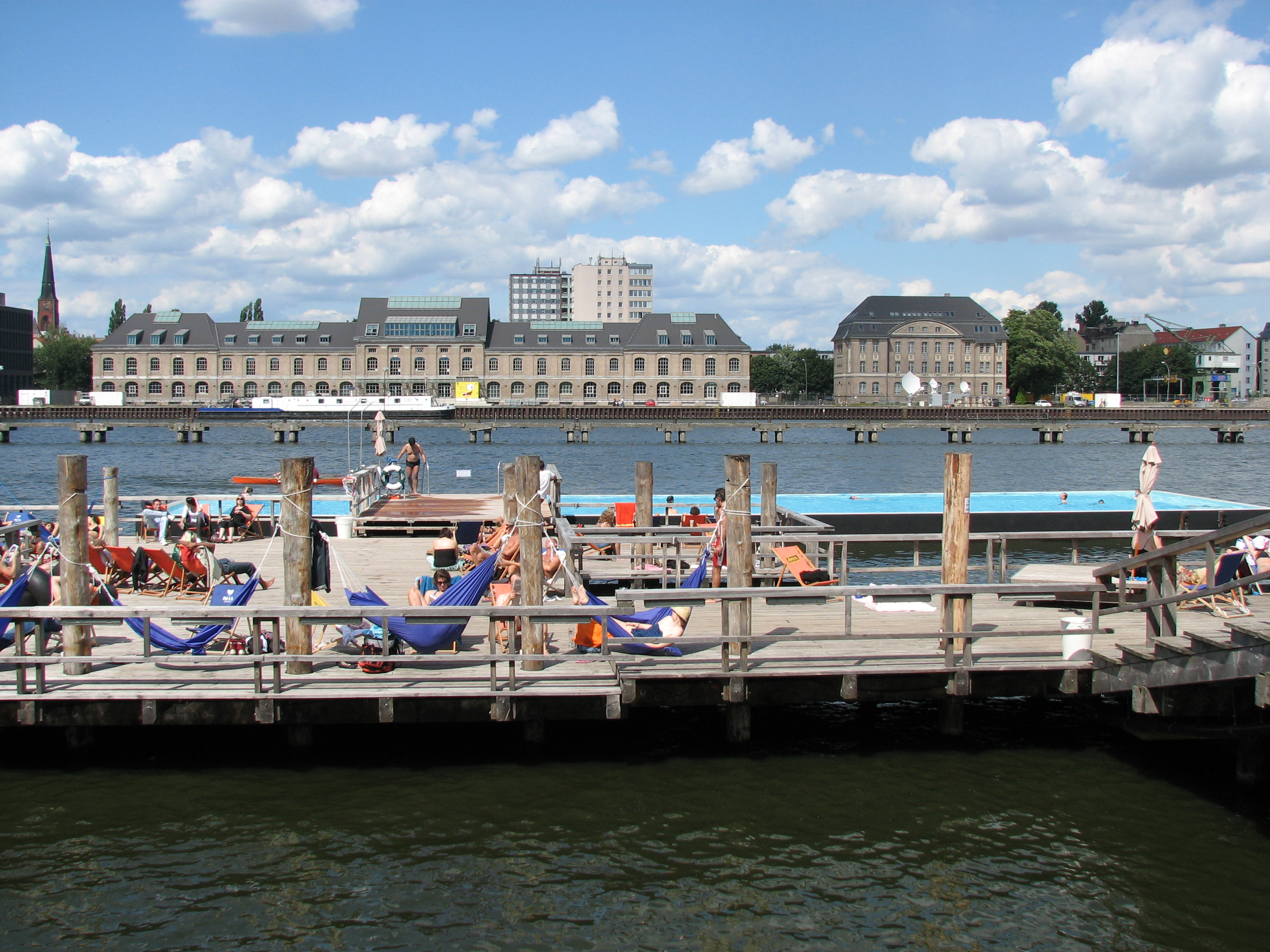 The Badeschiff on the Spree, in Treptow, Berlin. Photograph taken by me on July 8, 2007.